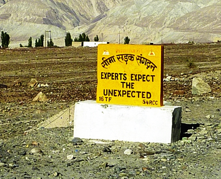 I took this photo on a trip across the Himalayas in 2010.